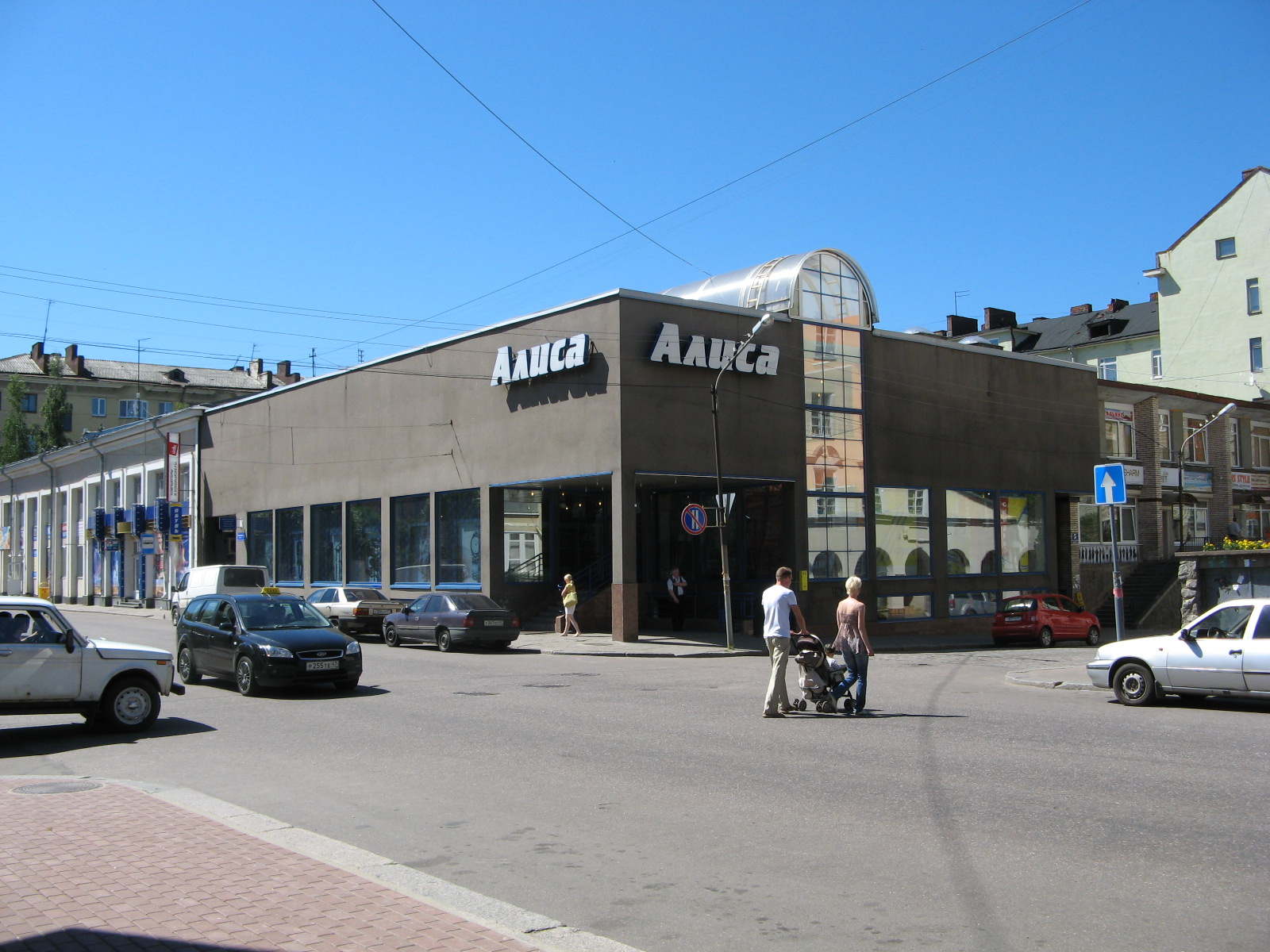 «Alisa» shopping center in Vyborg, Russia.